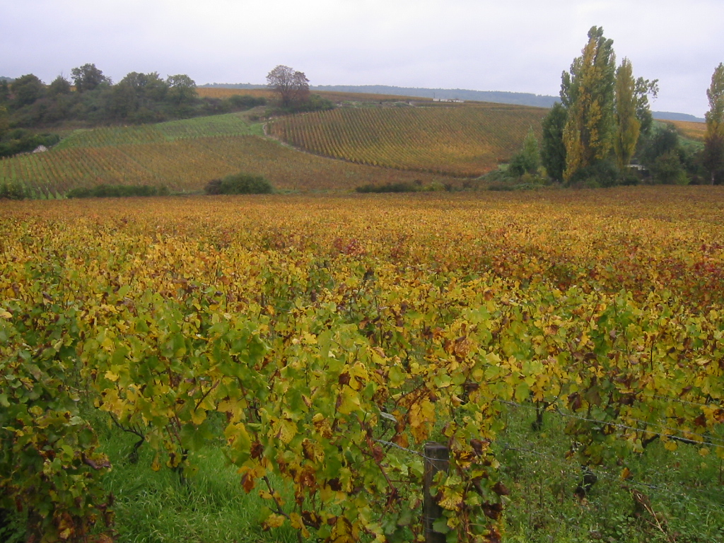 Vineyards in Gevrey Chambertin in Burgundy in autumn